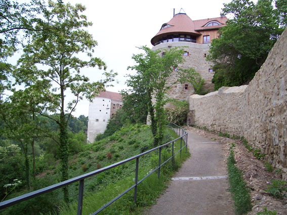 Bautzen - Mühlbastei.